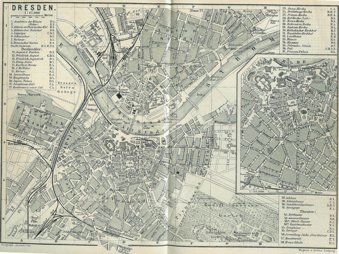 Map of Dresden, 1876